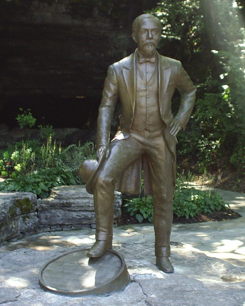 Bronze Statue of Jack outside of the cave